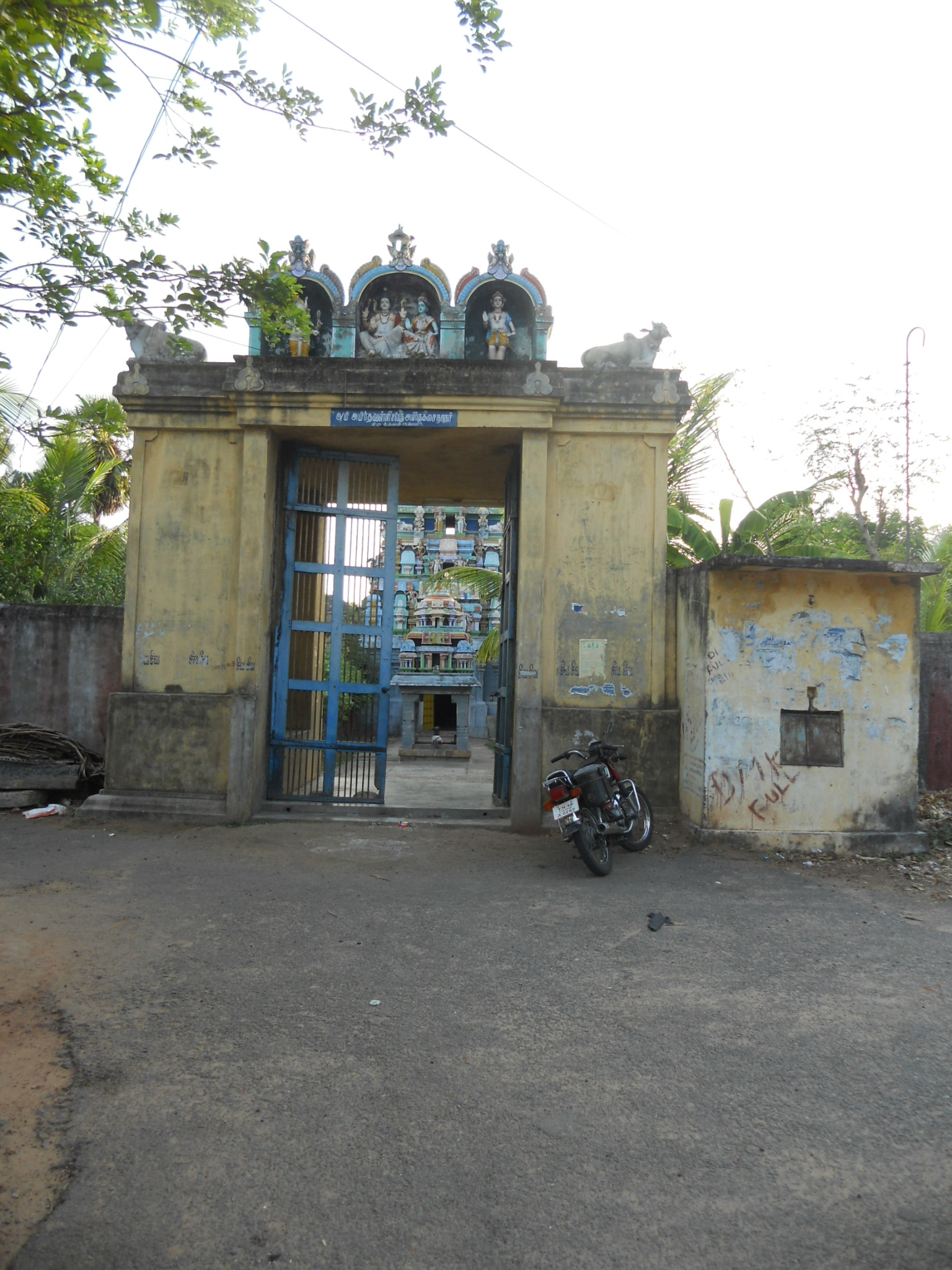 Amirthakadeswarar Temple, Sakkottai